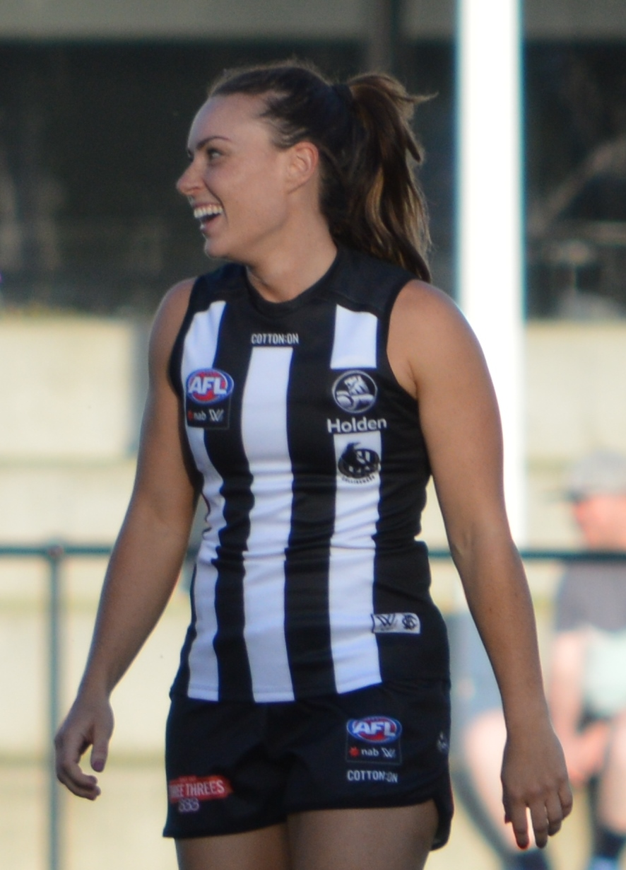 Georgie Parker at the AFL Women's practice match between Collingwood and Melbourne in January 2018